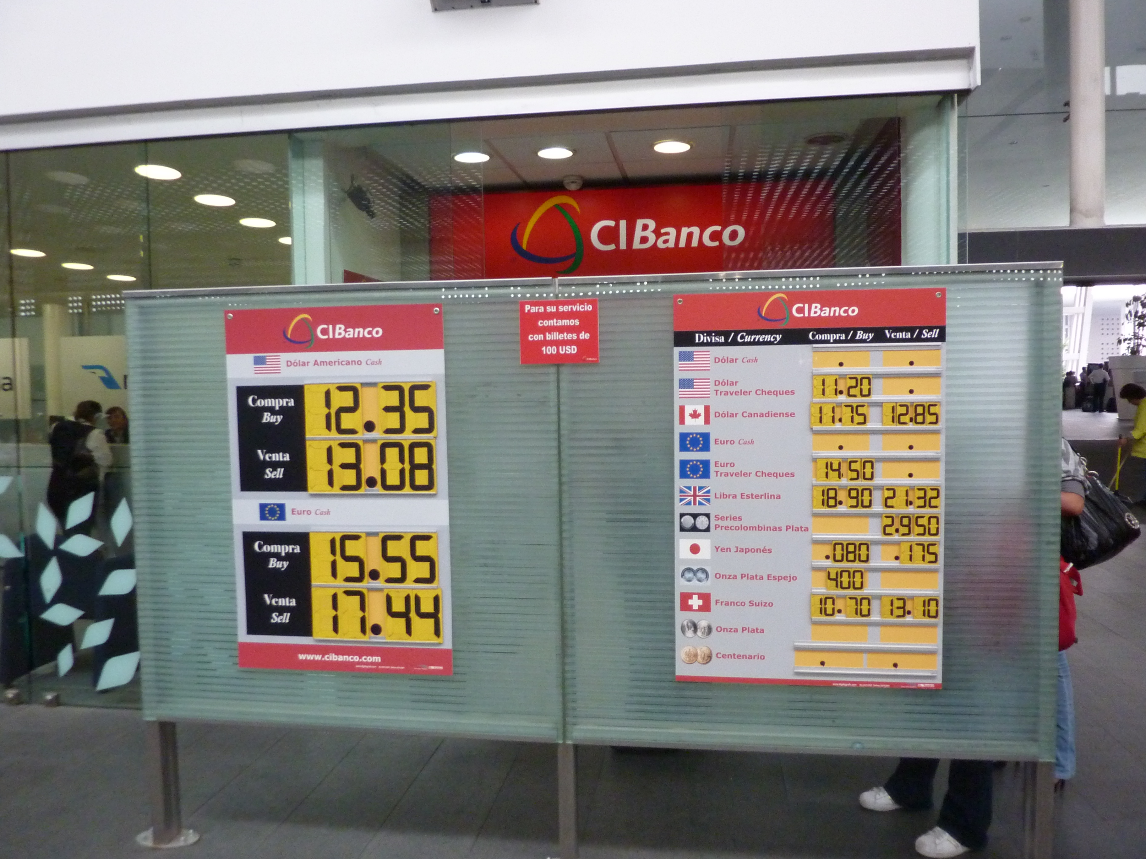 So expensive the euro! (2 pesos margin they keep)